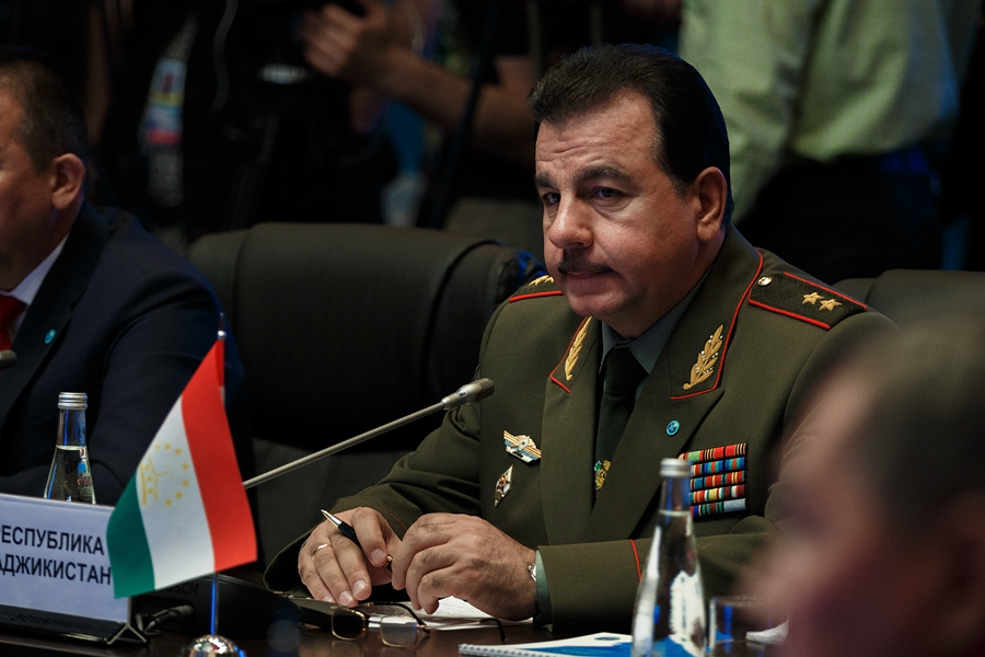 Tajikistani Defense Minister Lt. General Sherali Mirzo in St. Petersburg.